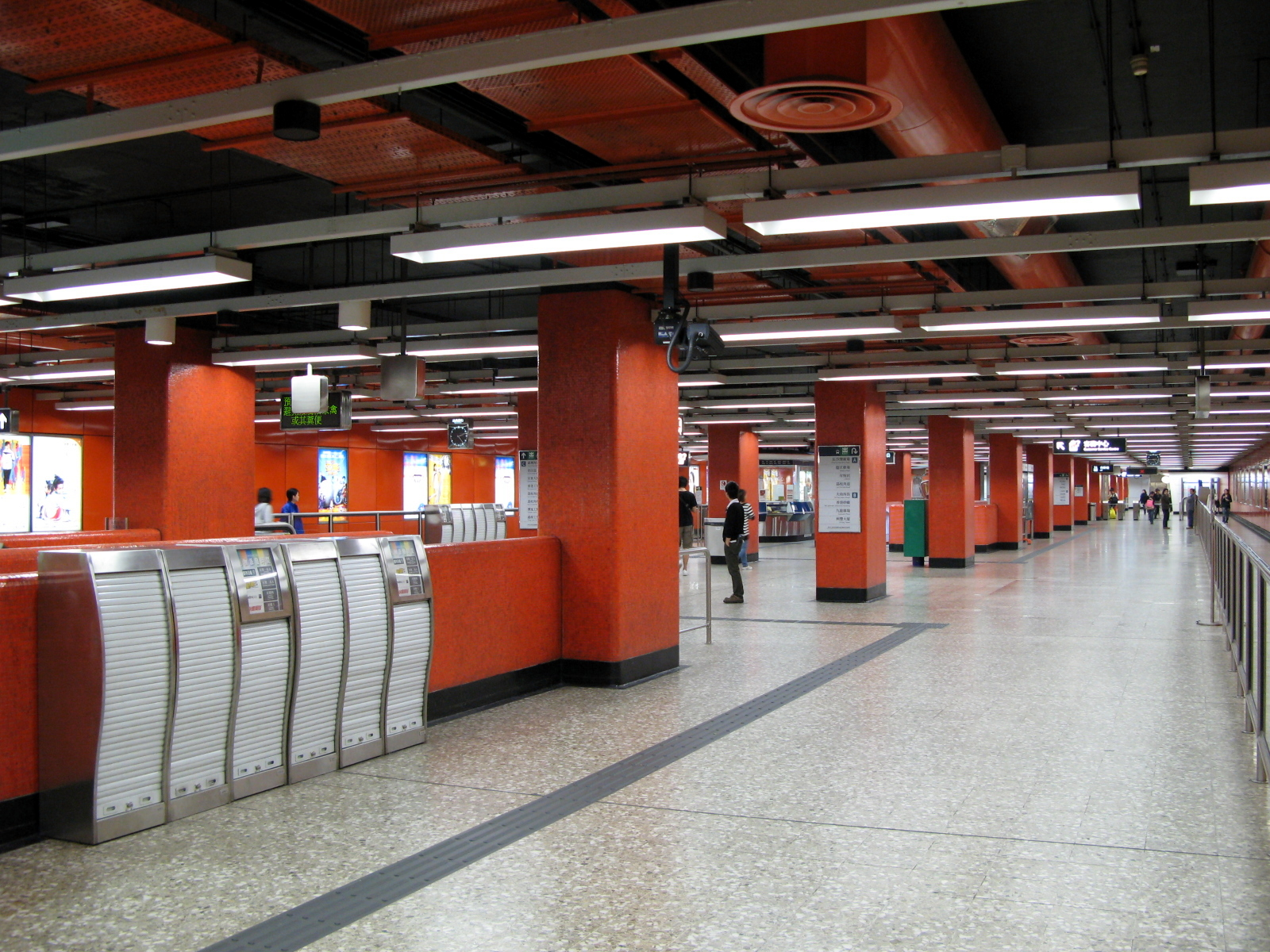 HK MTR Lai Chi Kok Station Concourse